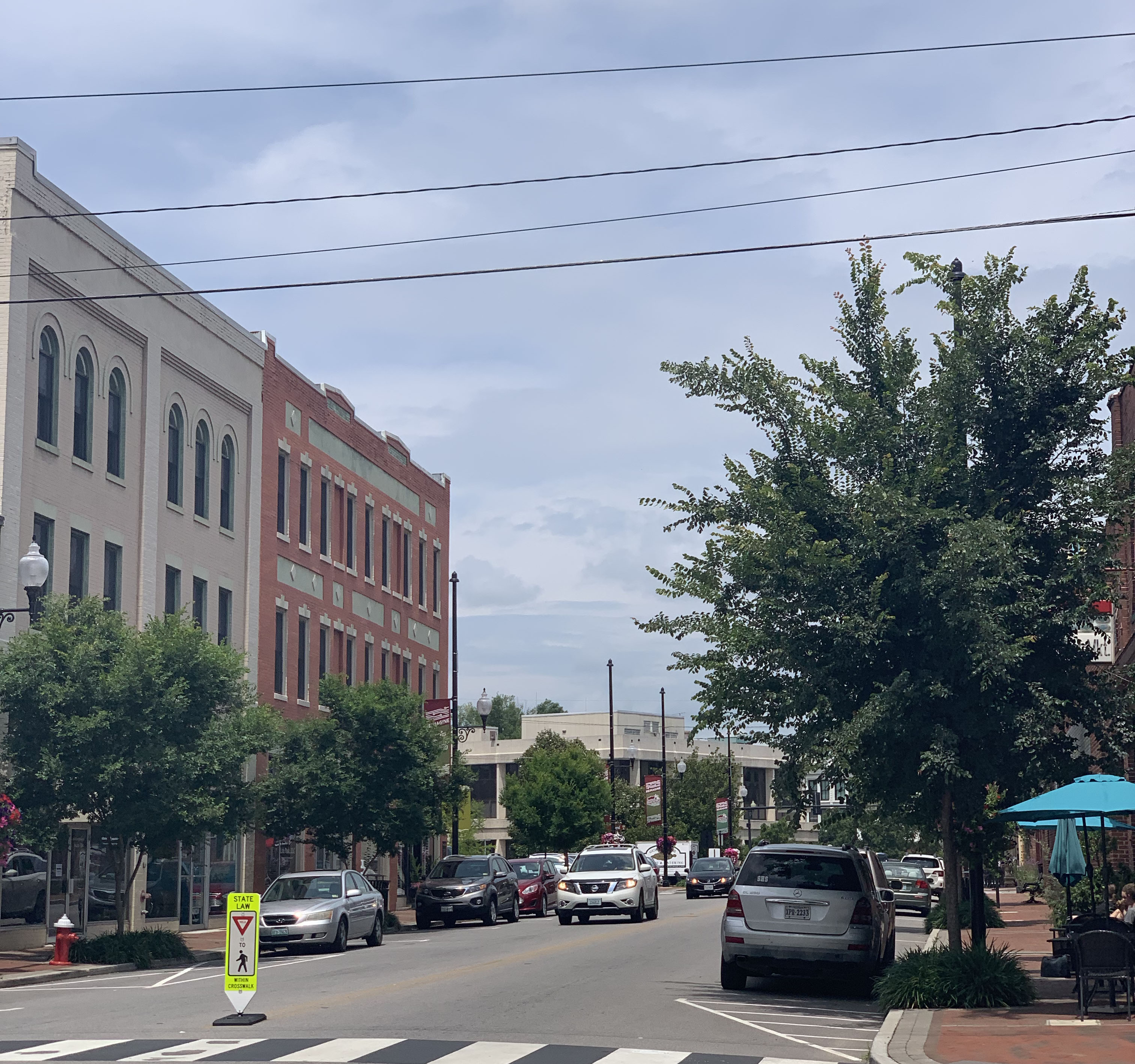 Riverdistrict